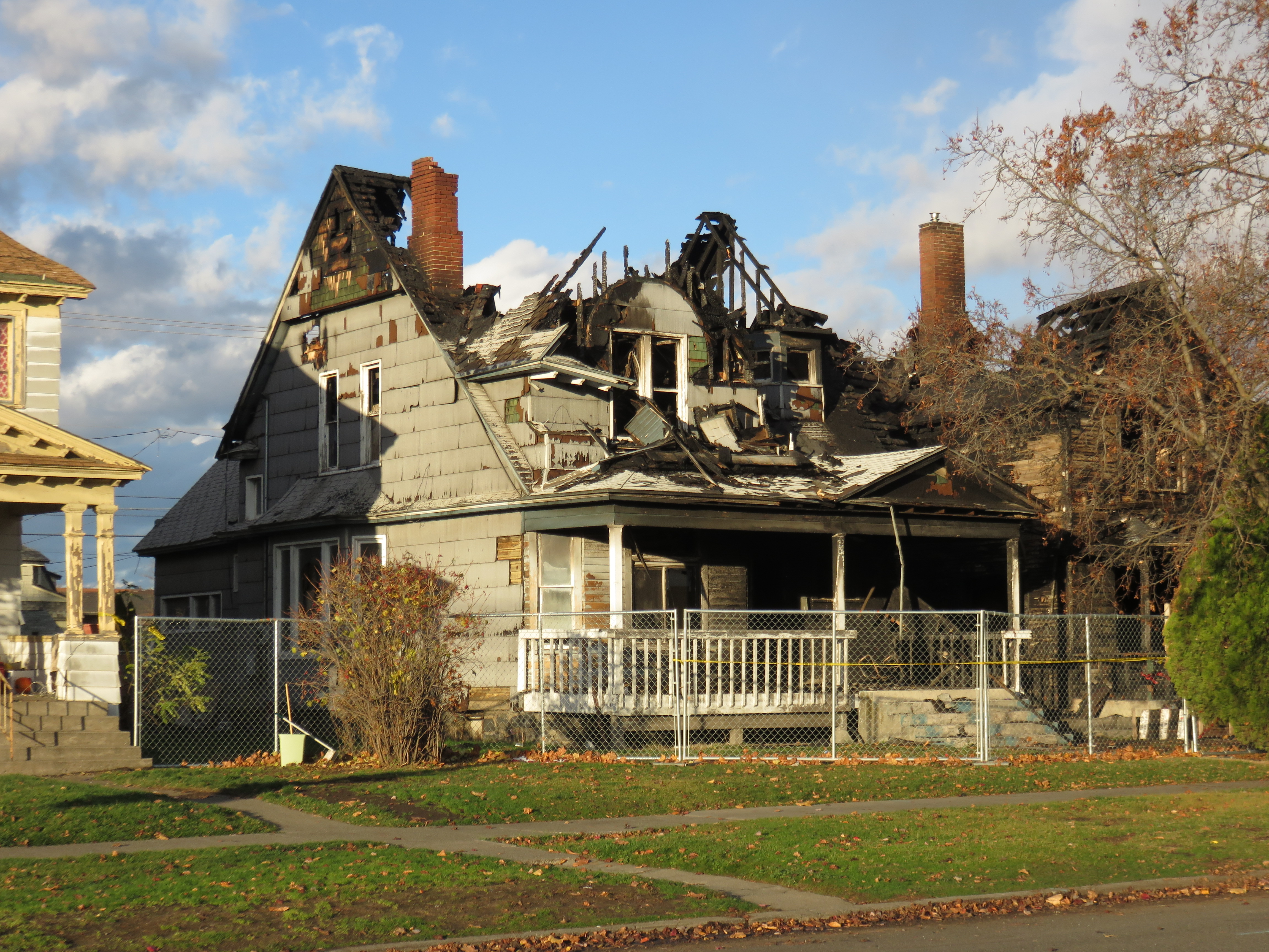 Burned-out house in Spokane, Washington in 2018